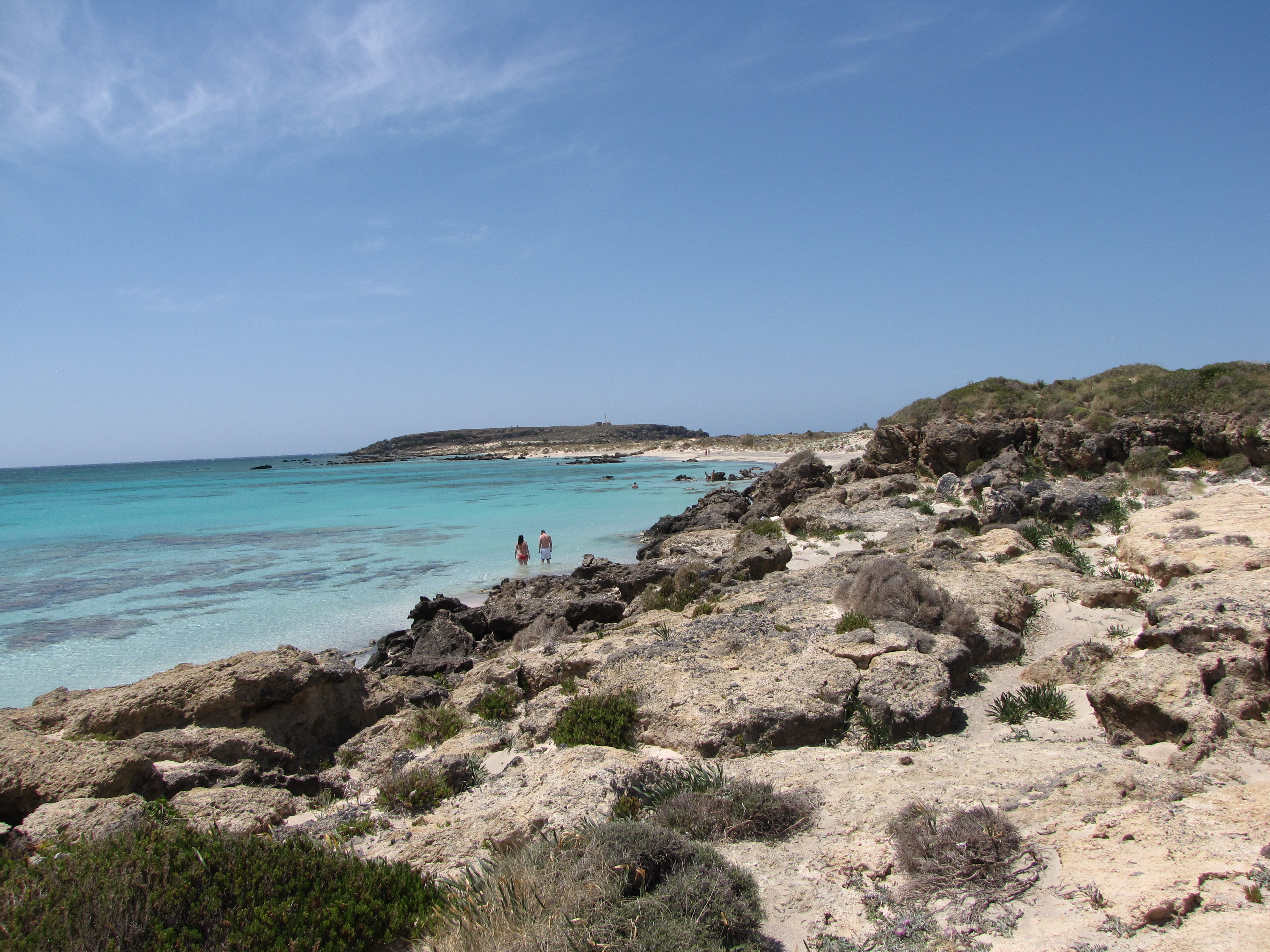 View from Elafonísi island, Crete, Greece.